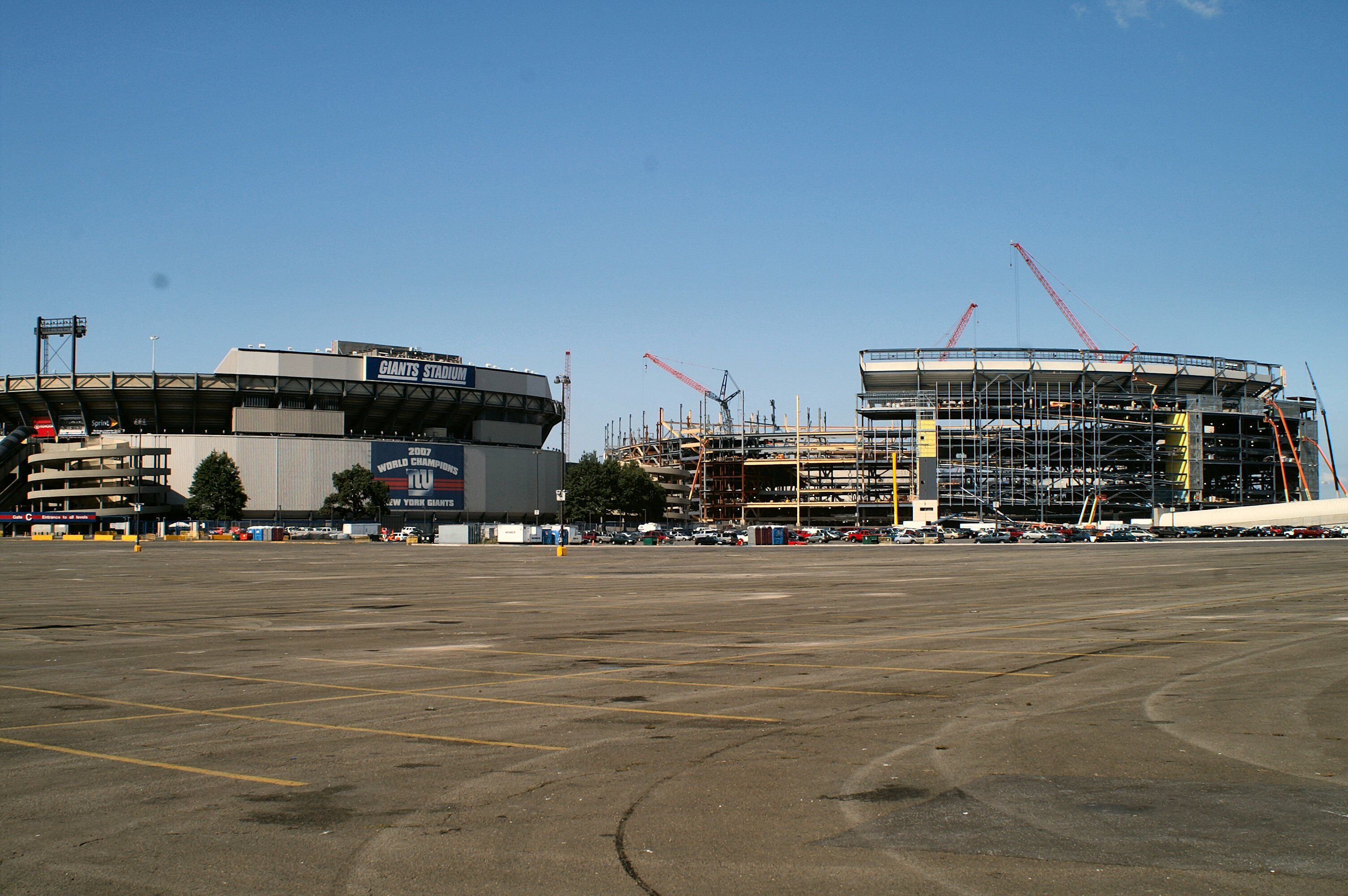 Giant's Stadiums - East Rutherford, New Jersey. Current stadium on the left. New stadium (under construction) on the right.